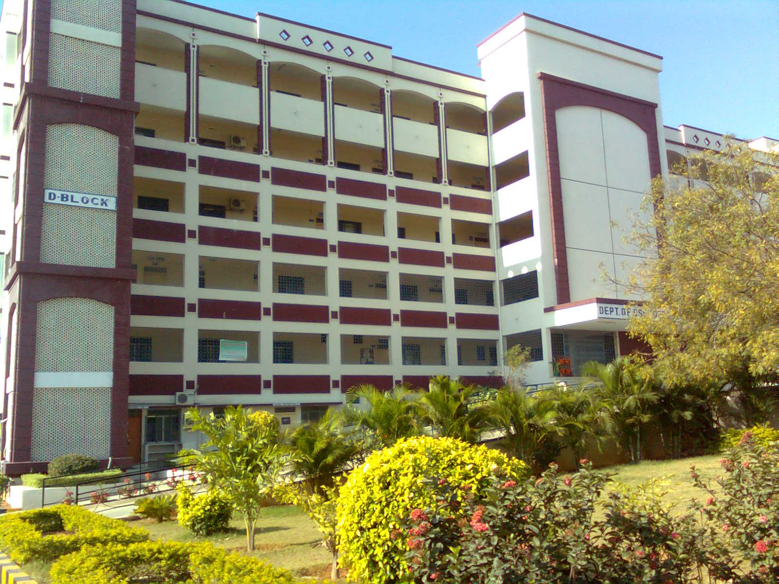 Hyderabad,Andhra Pradesh